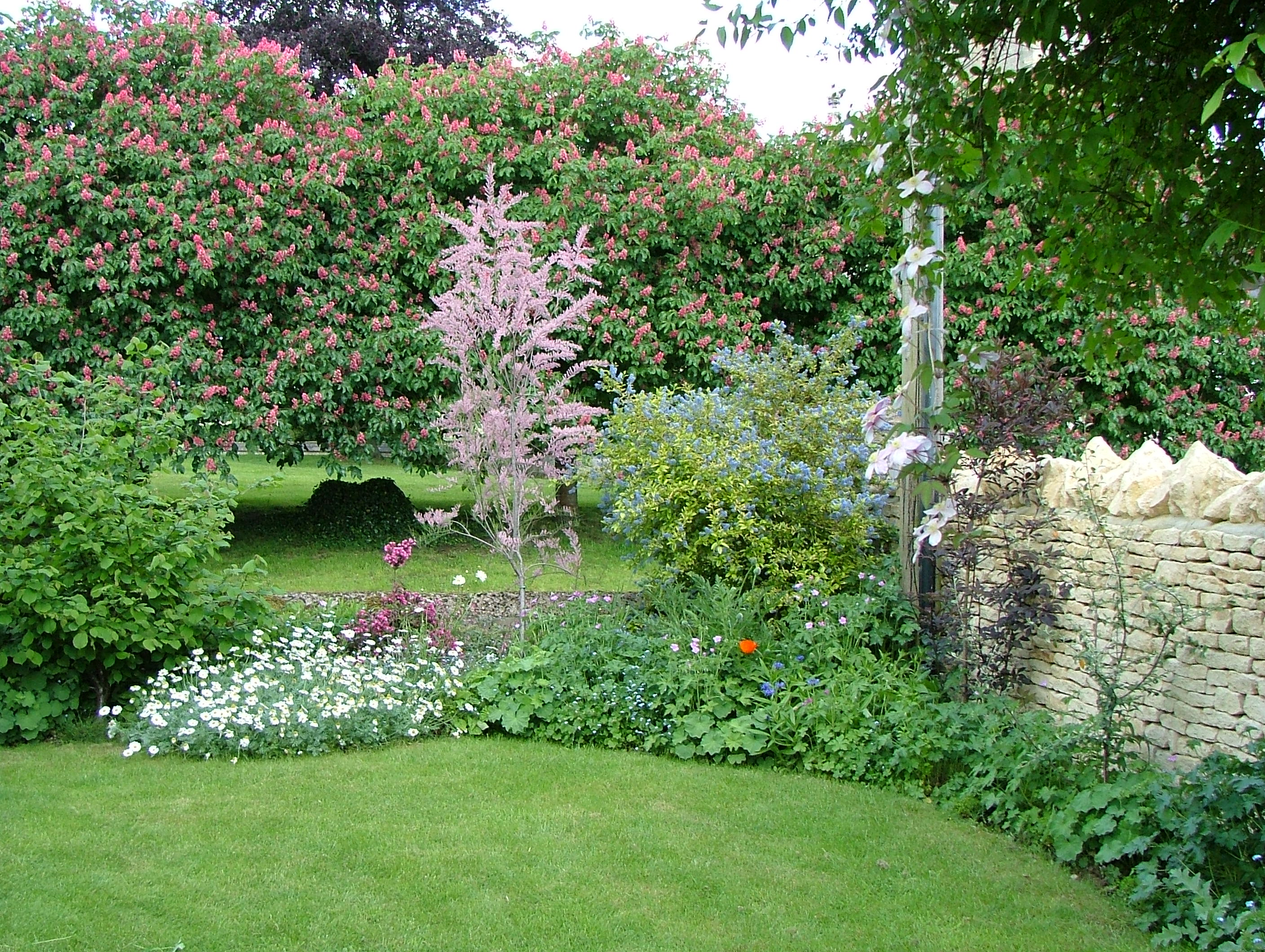 Part of my garden, May 2004 (Oxfordshire Cotswolds)